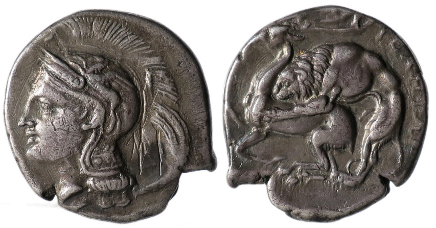 Silver Nomos from Velia, Lucania.